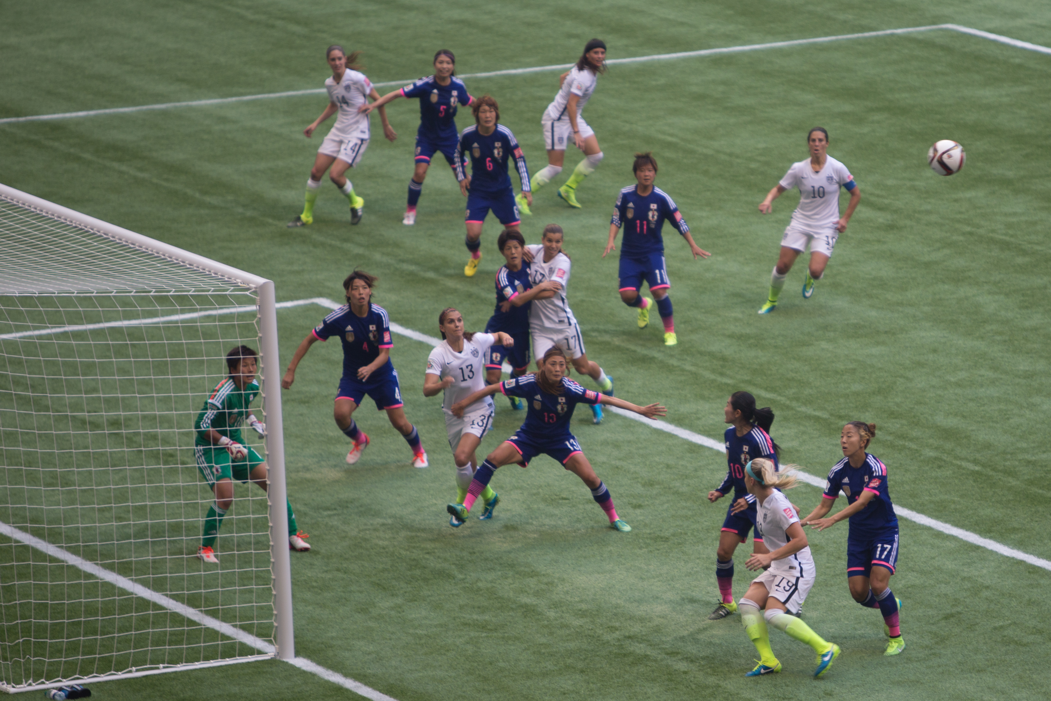 This corner is going in!